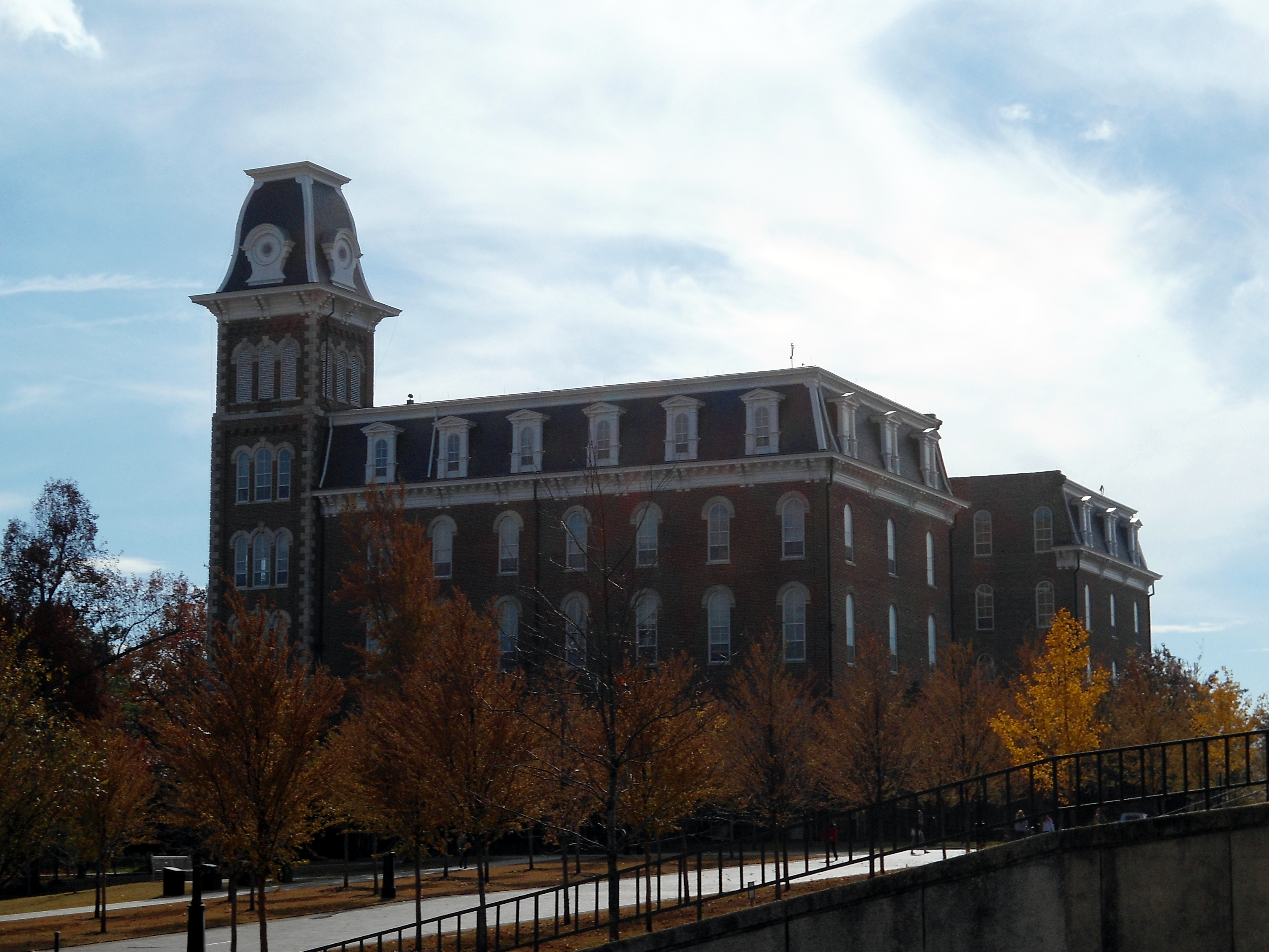 Old Main, as viewed from the northwest. On the University of Arkansas campus in Fayetteville, Arkansas.